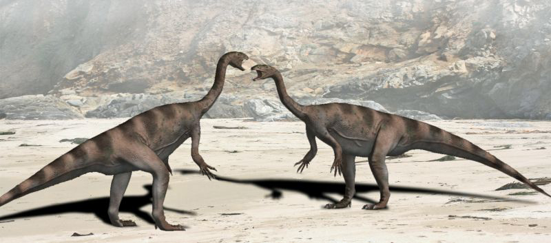 Plateosaurus engelhardti from the Late Triassic of Germany. Digital.